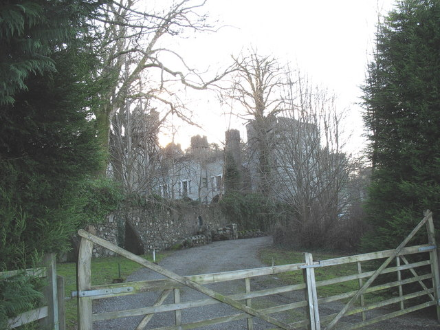 The front of Castell Bryn Bras